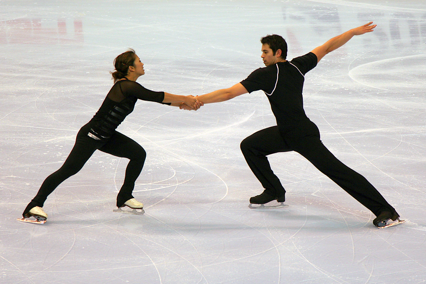 Naomi Nari Nam and Themistocles Leftheris at the 2006 Skate America.